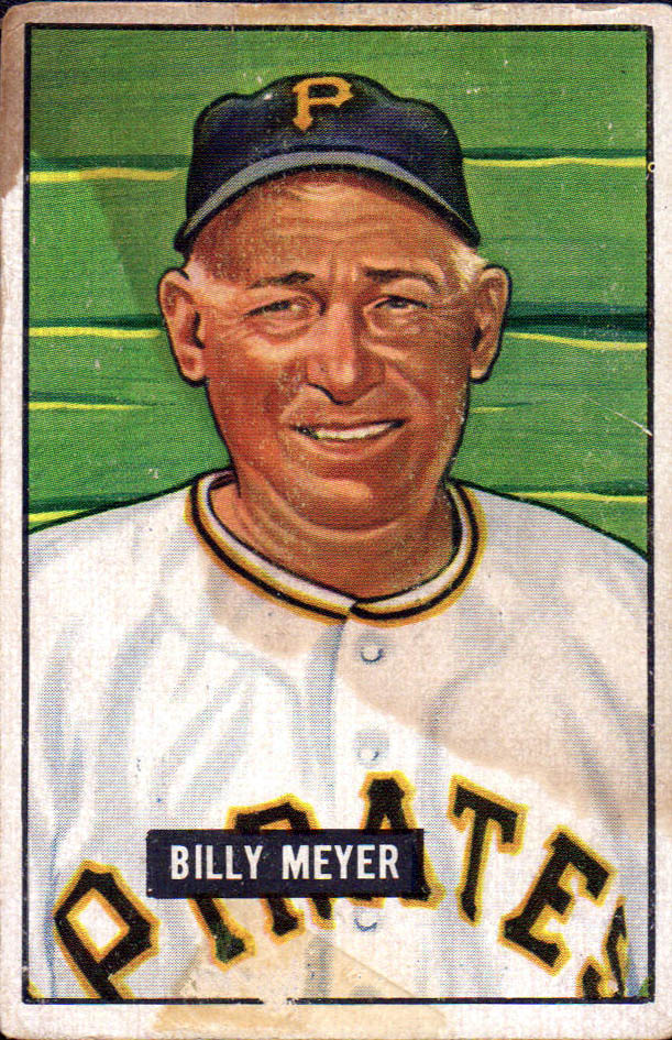 Baseball card depicting Bill Meyer.